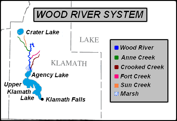 Map of Wood River drainage area in southern Oregon